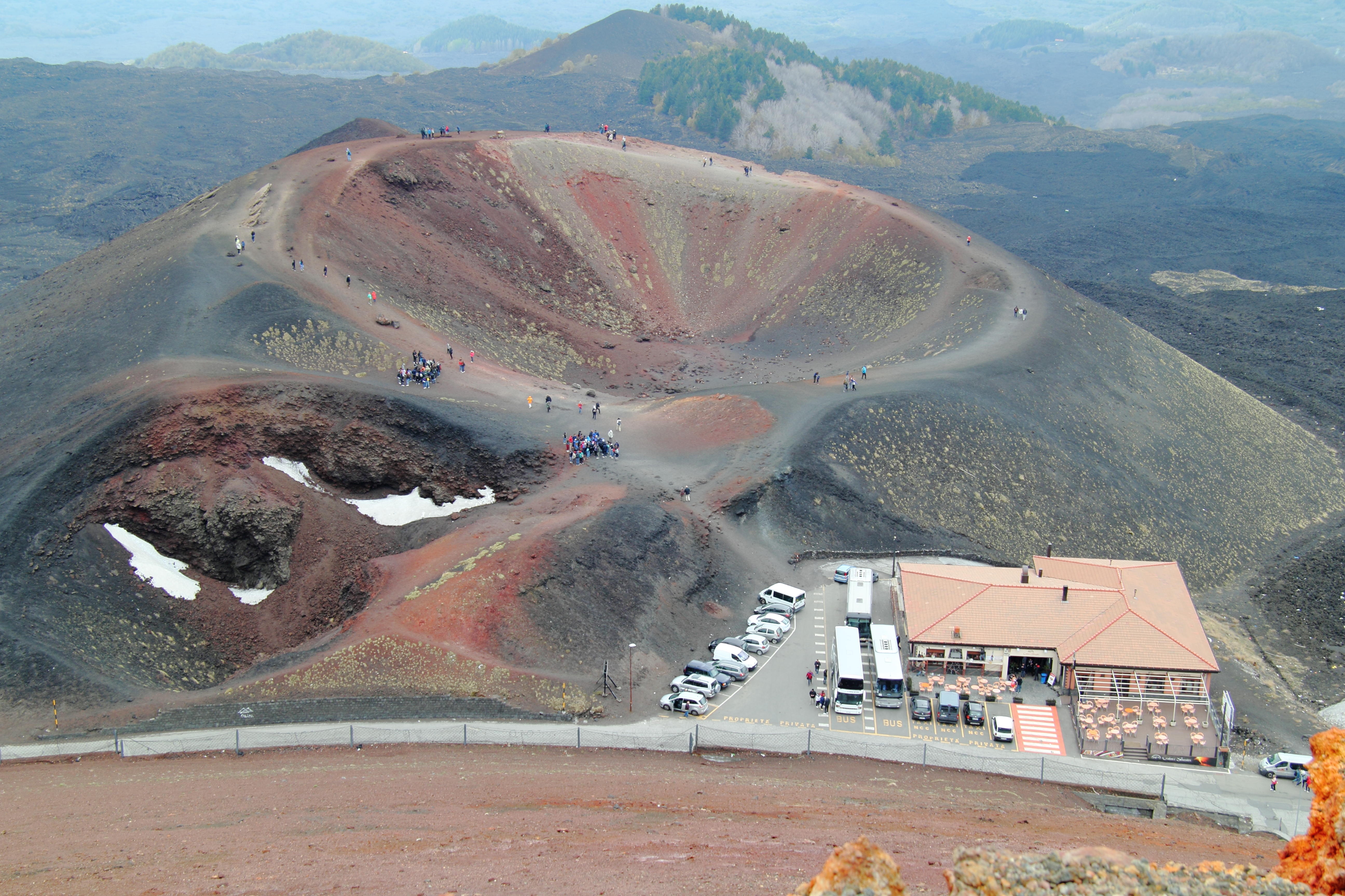 Sicily, en: Mount Etna: „Rifugio Giovannino Sapienza“ tourist station